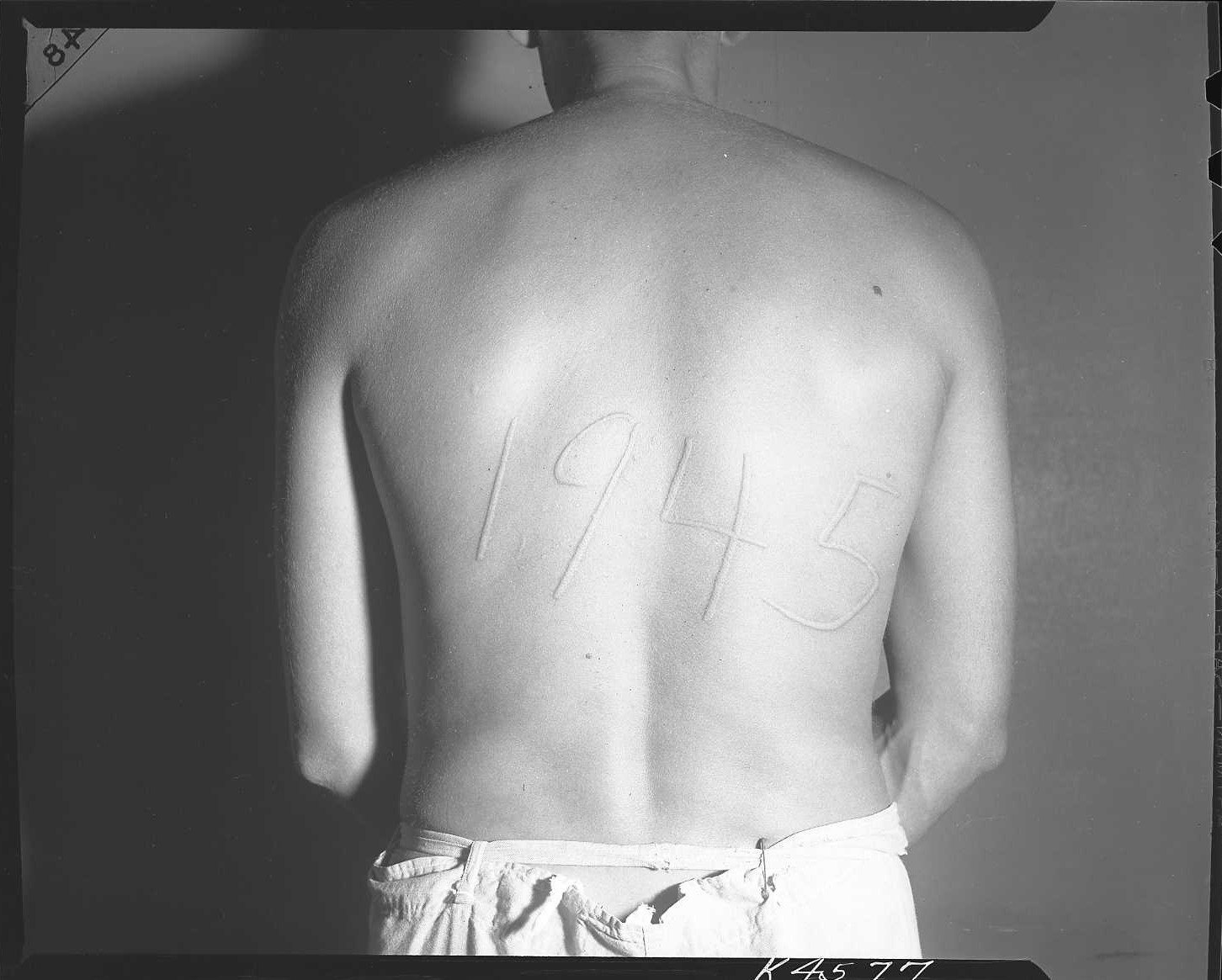 Dermographia on a patient's back. This is not a scar; the raised marks are caused by scratches or irritation to the skin and aren't permanent